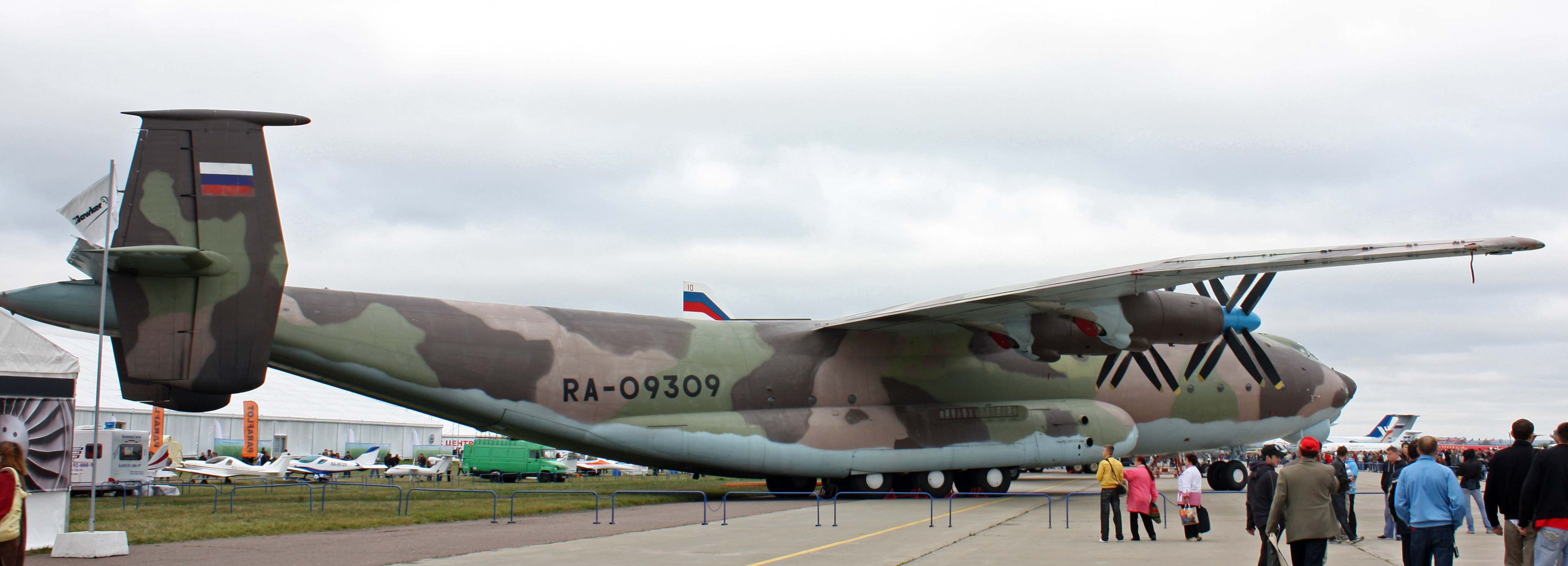 Antonov An-22 "Antaeus" (The international aerospace salon MAKS-2009)